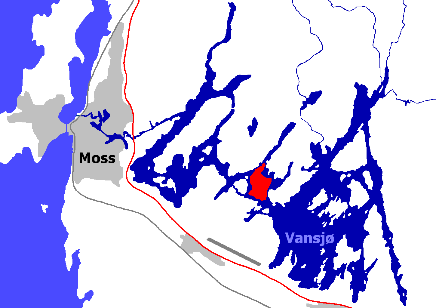 Map of the lake Vansjø. The island of Bliksøya in red. Created by JohnM 21:31, 20 May 2006 (UTC)